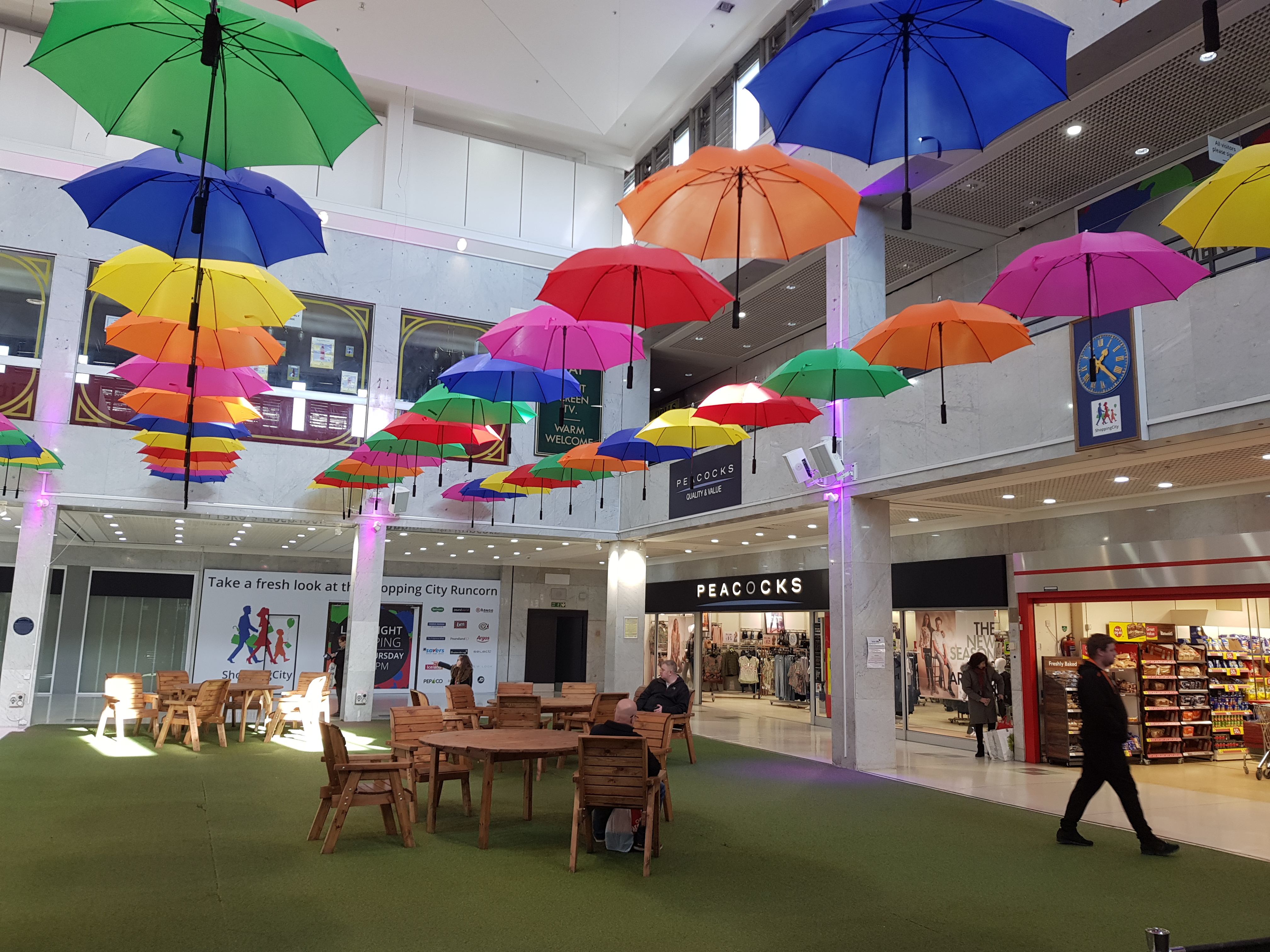 Umbrellas in City Square inside Runcorn Shopping City